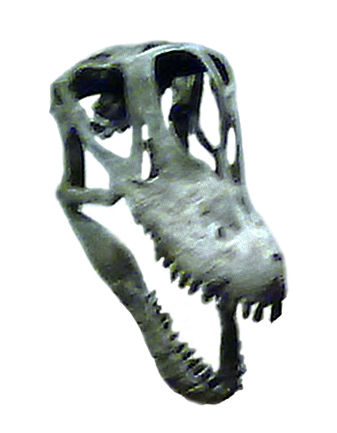 Denver Museum of Nature and Science Brachiosaurus.